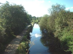 i took the photo myself.